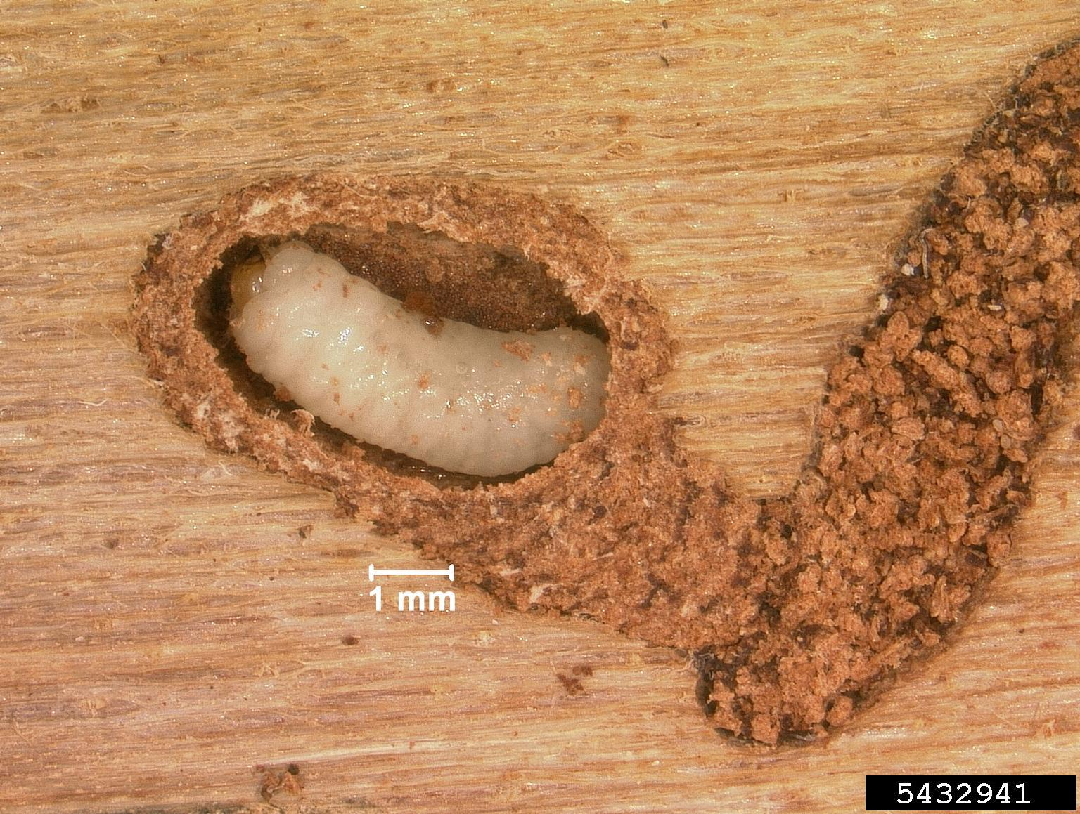 Ips grandicollis larva, USA